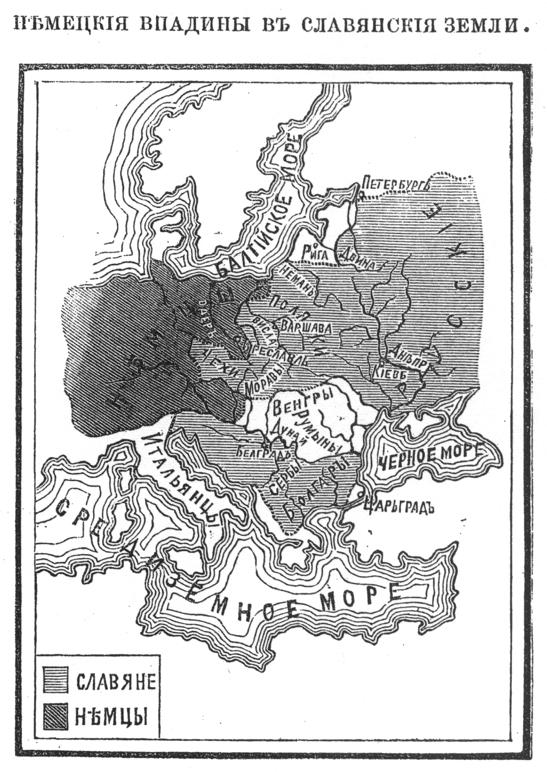 Map from "Славянский мир"